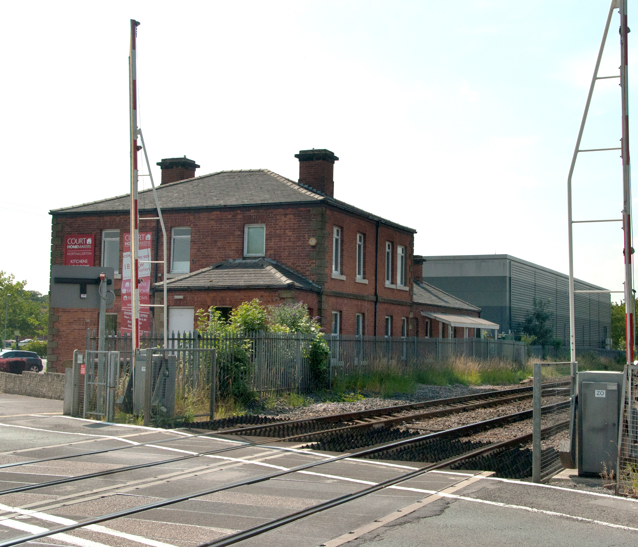 Northallerton Town Railway Station on the former Leeds Northern Railway open between 1852 and 1856